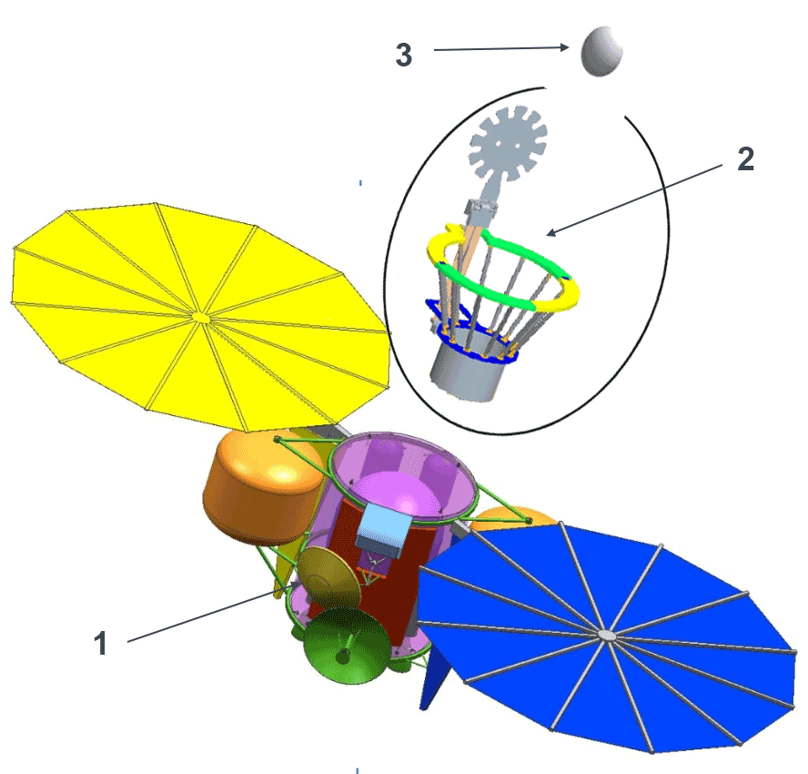 Mars-sample-return : : orbiter